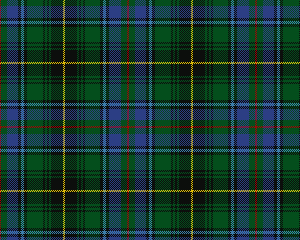 The tartan of the MacInnes Clan. Created in a tartan generator.